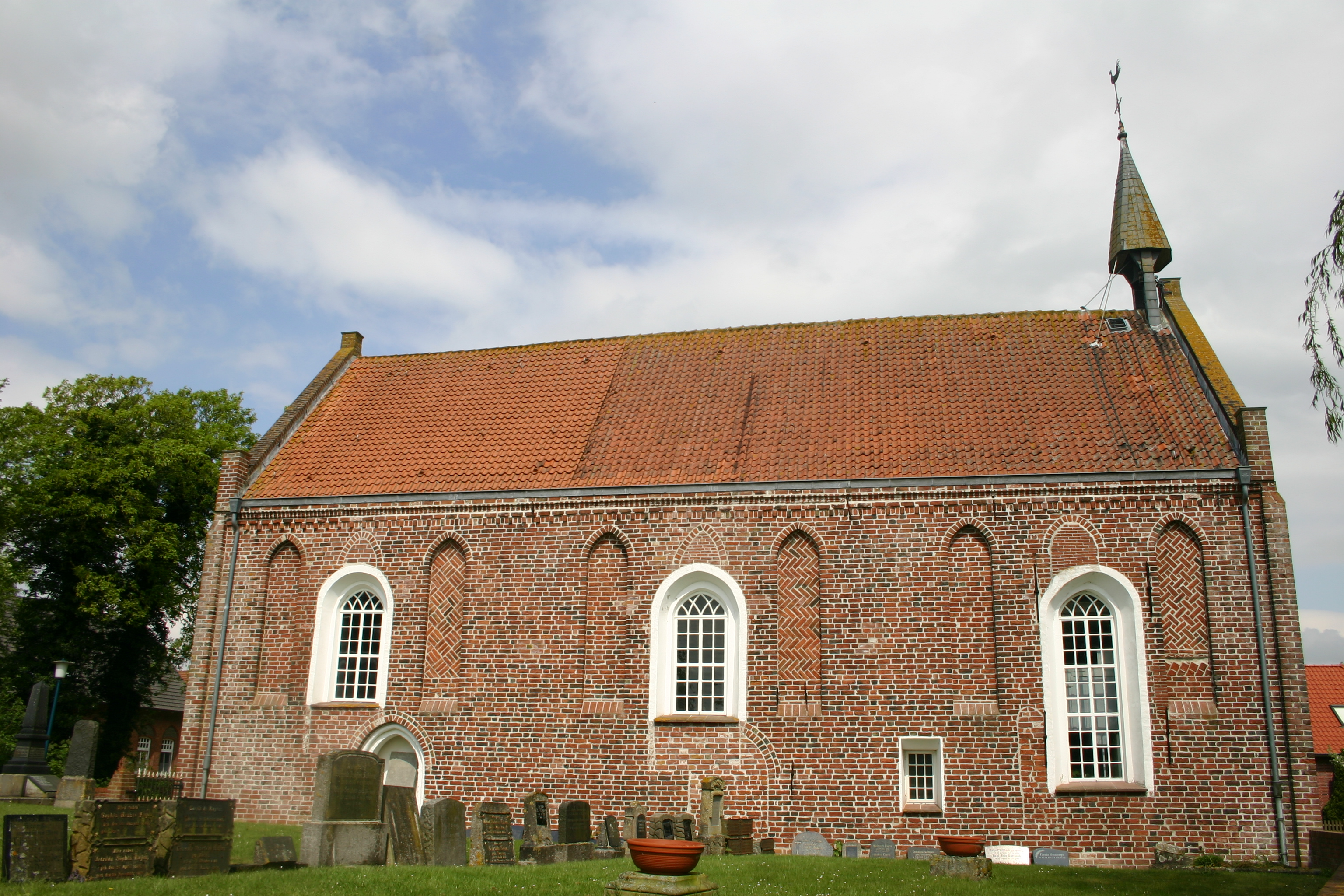 Historic church in Campen, district of Aurich, East Frisia, Germany, C13 (reformed)